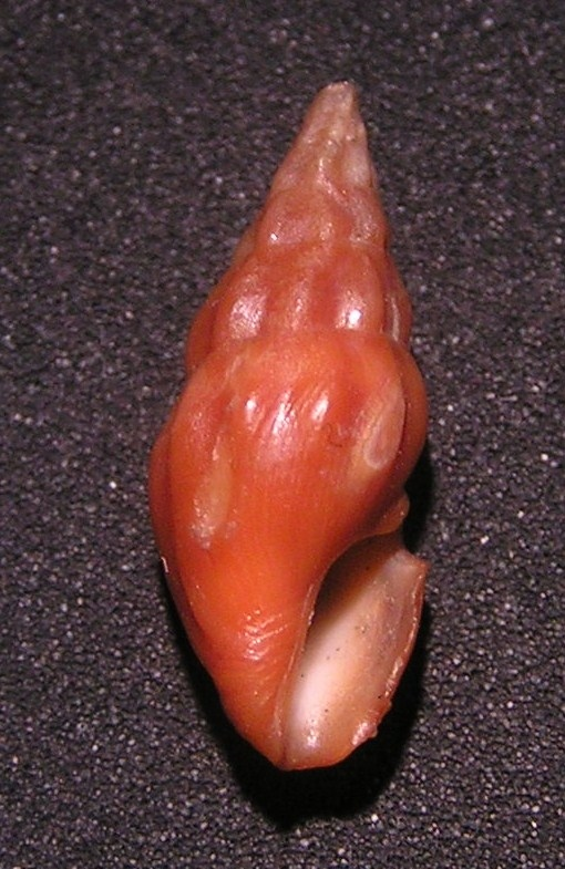 Drillia quadrasi Böttger, 1895, a sea snail in the family Drilliidae; Philippines